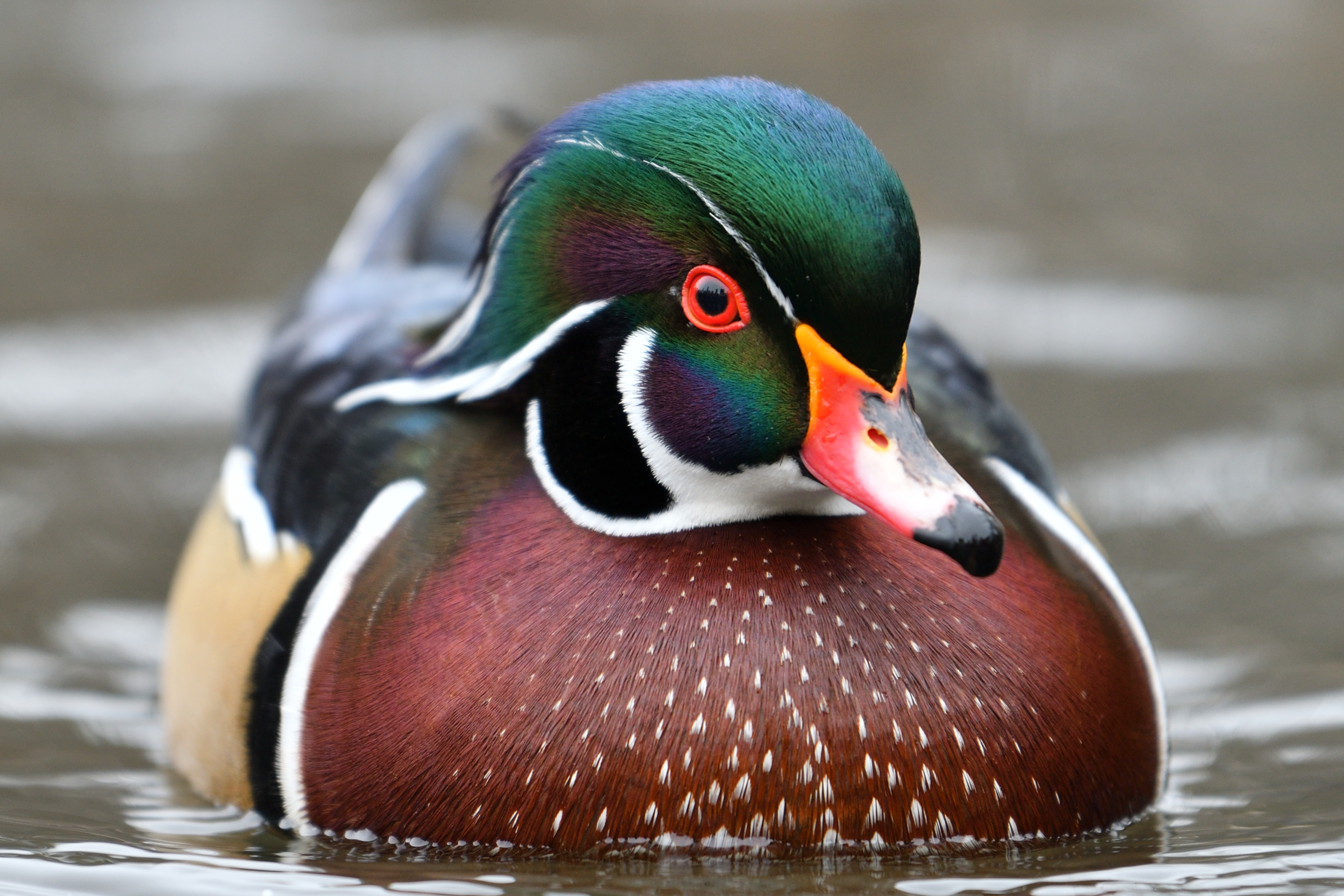 Wood Duck at The Pond, Central Park, New York, NY